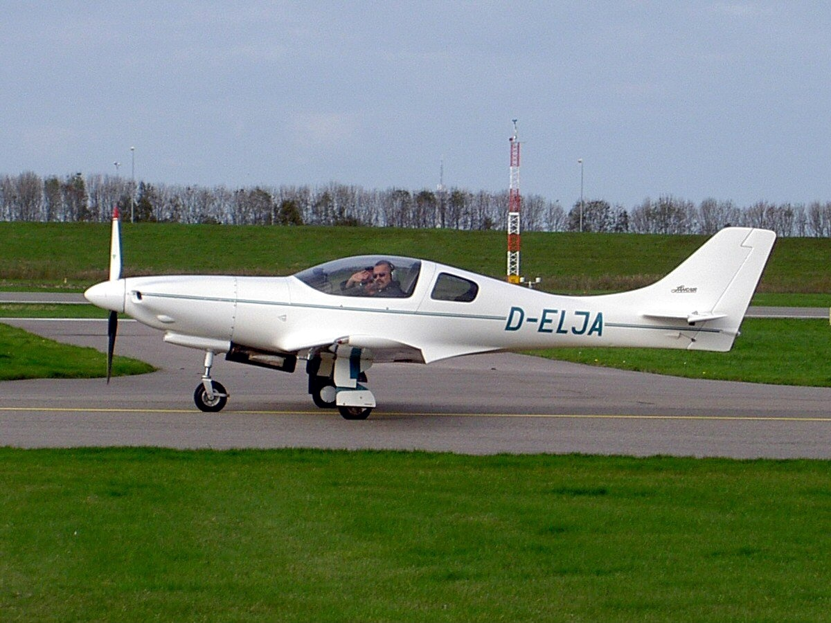 Photographed at Lelystad Airport.